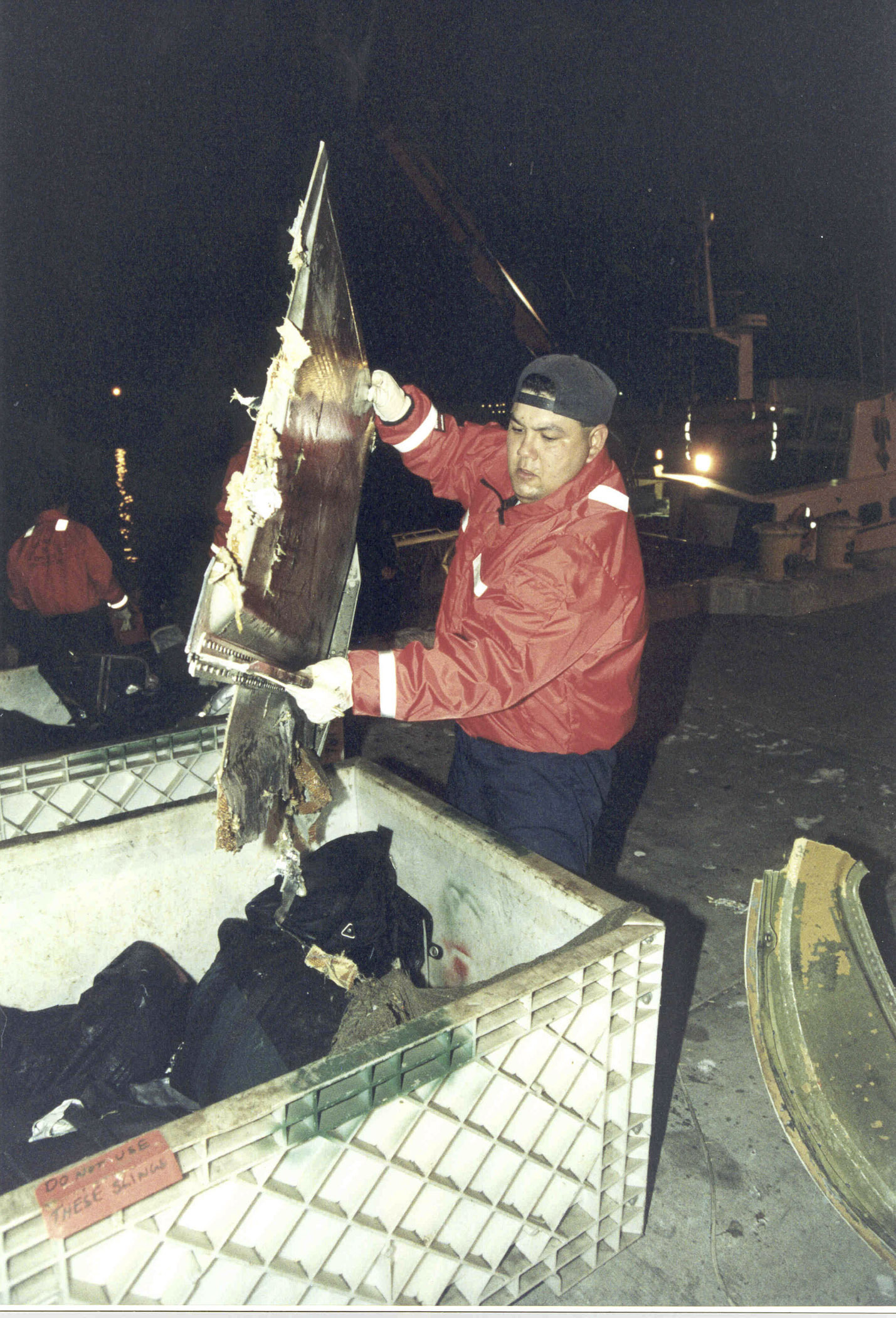 Port Hueneme, CA (Jan. 31)--Only hours after the crash of Flight 261, recovery crews at Port Hueneme's Naval Construction Battalion Center began the arduous task of collecting the remains. BM3 Ray Nandino places aircraft remains in holding bins for further investigation. U.S. Navy photo by PH2 (SCW) Lou Messing